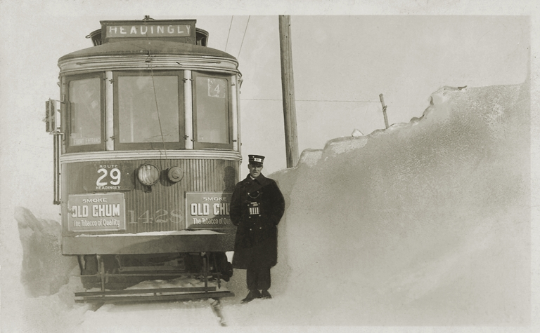 An interurban train in the Headingley, Manitoba area, early 20th century. Note the misspelling of the town name. Even today, some people use this incorrect spelling.